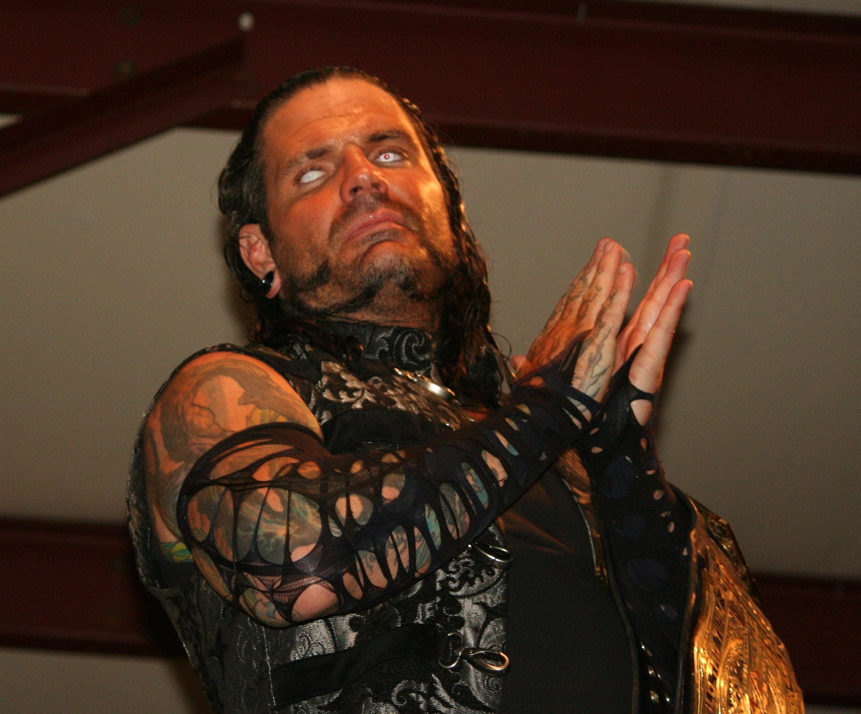 This image shows professional wrestler Jeff Hardy as his Brother Nero character at a Carolina Wrestling Federation (CWF) Mid-Atlantic independent show on January 29, 2017.